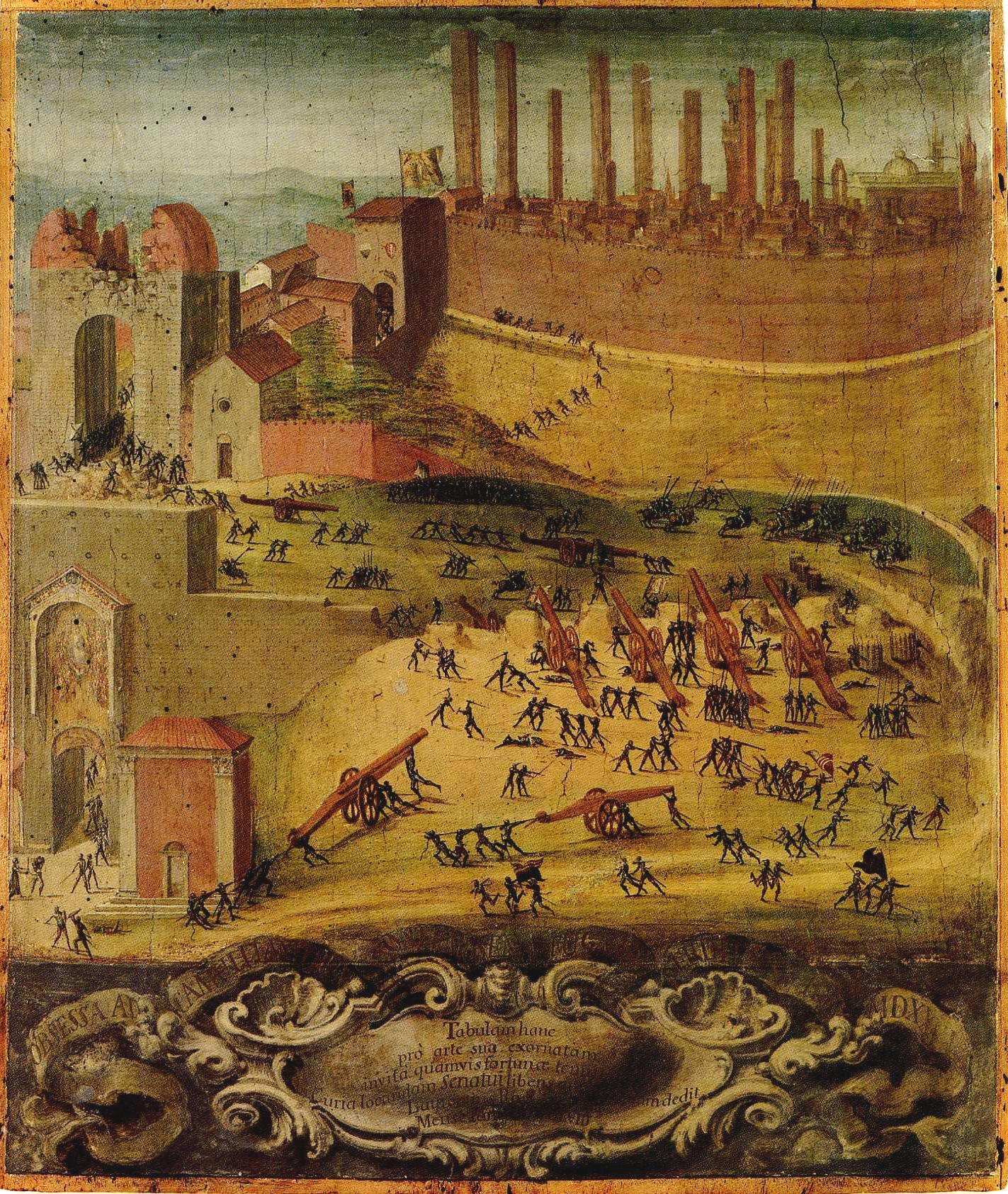 The victory of Camollia of 1527, from January to December of Giovanni di Lorenzo Cini